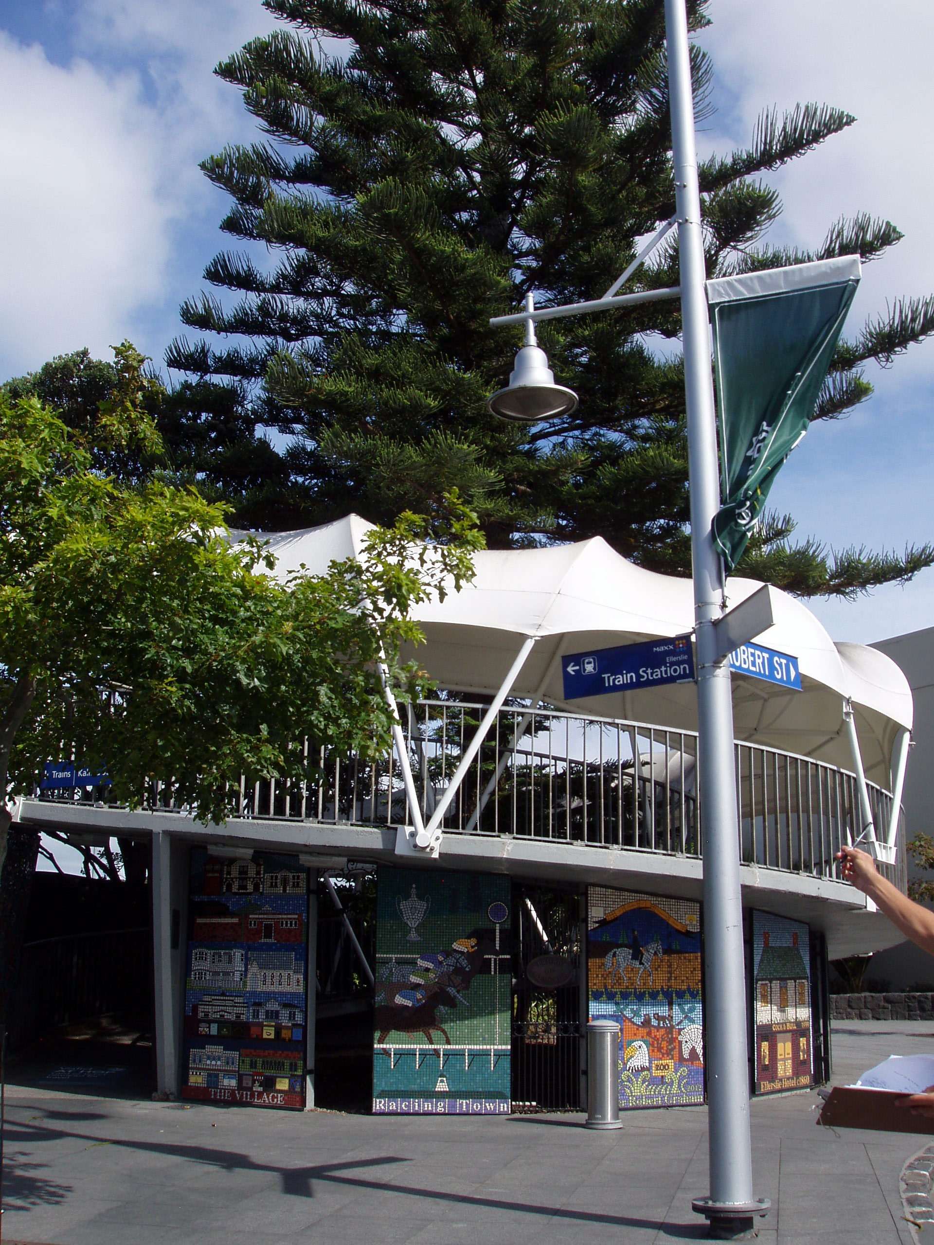 Mosaics on the Bridge of Memories portray different landmark buildings in Ellerslie, Auckland, New Zealand